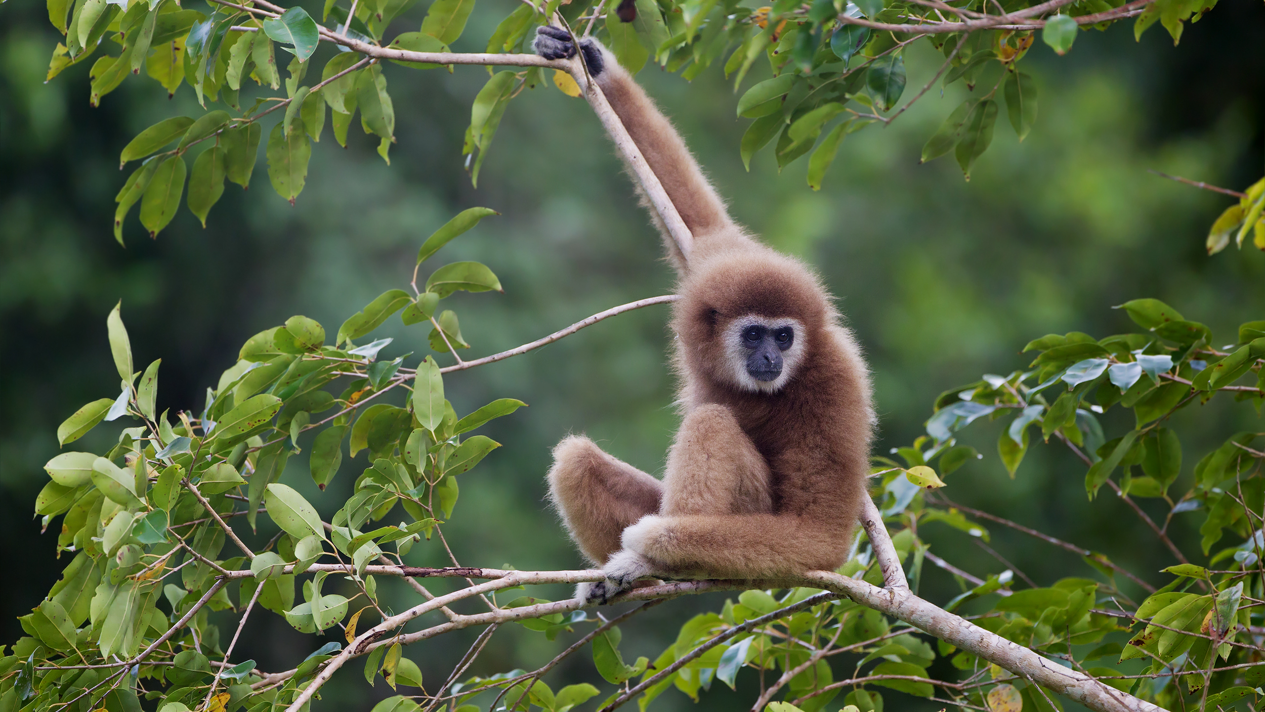 White-handed Gibbon (Hylobates lar), Kaeng Krachan National Park, Phetchaburi, Thailand